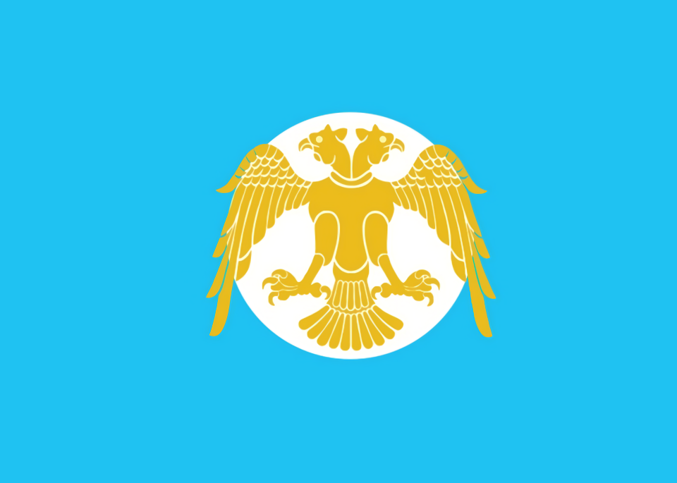 Official flag of the Syrian Turkmen people